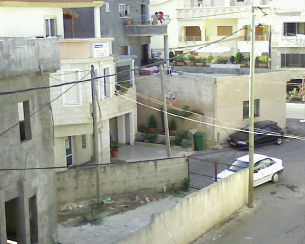 Houses and shops in Ein Majd al-Krum or Majd al-Krum's commercial center.